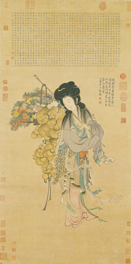 Magu, the Hemp Maiden, is depicted here as a young lady of about 18 or 19 years of age, including slender fingers with long nails like bird claws and her hair tied up with some strands falling down. She is seen carrying gourds and a basket with spirit fungus and flowers, associating her with fortune, longevity, and auspiciousness. This painting reflects her description in the Biographies of Deities and Immortals by Ge Hong (284-363) of the Jin dynasty.